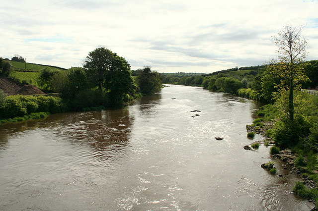 A "Brown flood" on the Mourne at Victoria Bridge. When in spate the locals refer to the condition as a "Brown flood" and it's then the worms are in demand being the most fruitful bait for trout and salmon when the water is thus.This particular beat was once the haunt of a former Northern Ireland prime minister and also myself and pals when noone was looking, especially Paddy McGuigan the water bailiff!!!